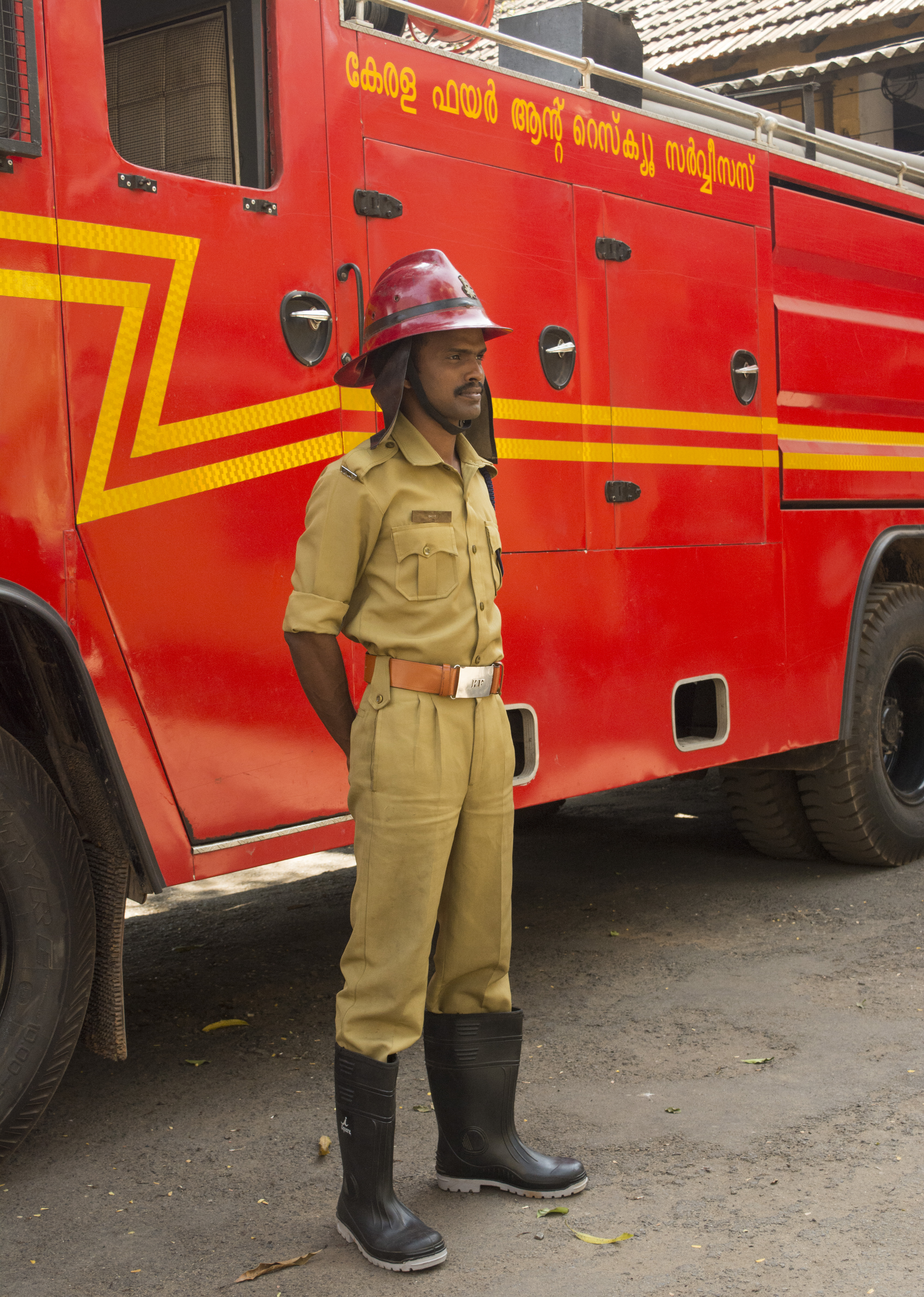 fireman with full PPE